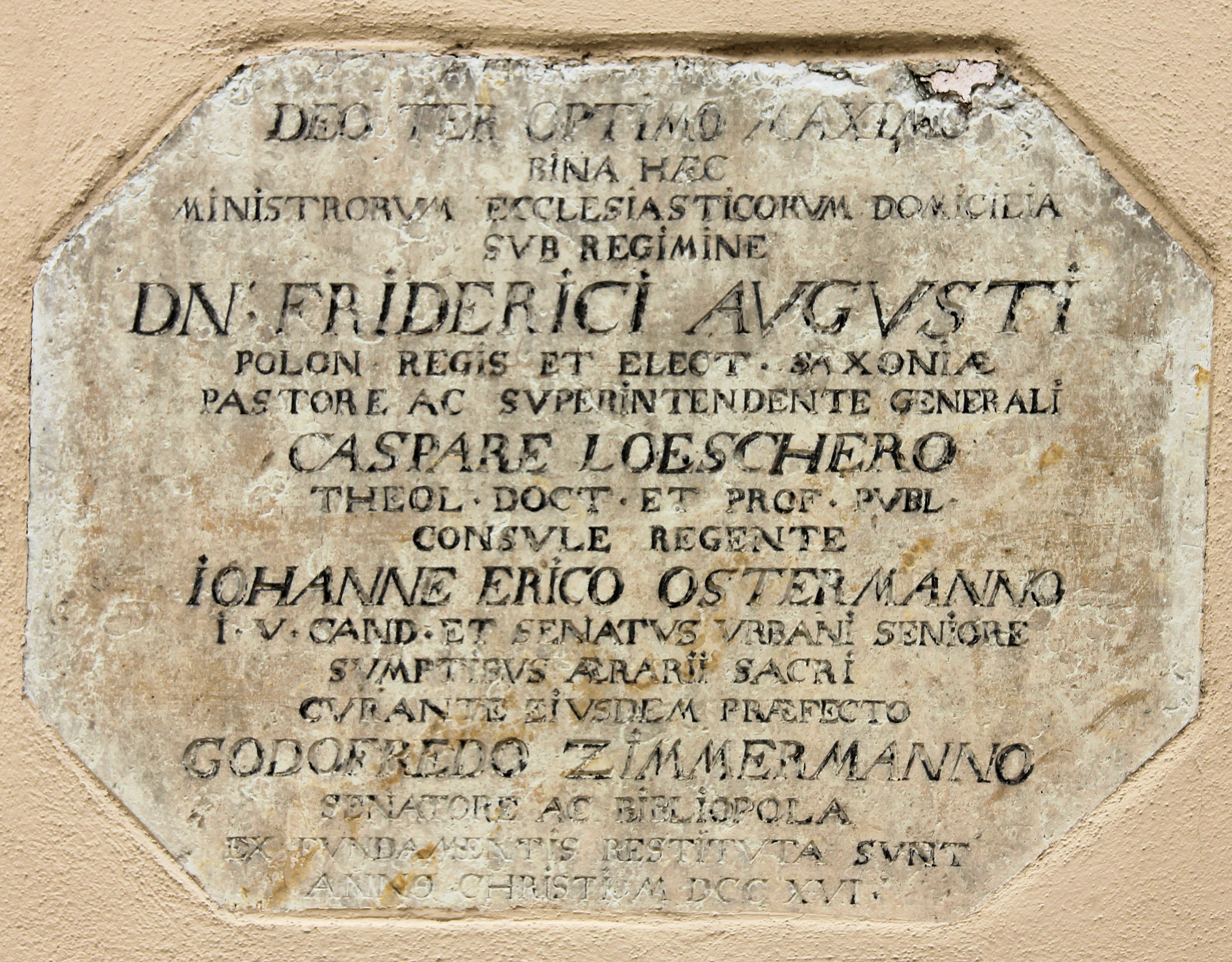 Memorial plaque, August II. (Polen), Caspar Löscher, Jüdenstraße 37, Lutherstadt Wittenberg, Germany